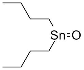 Dibutyltin oxide